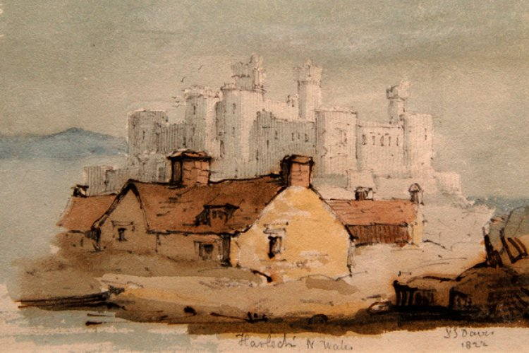 Depicts Harlech Castle